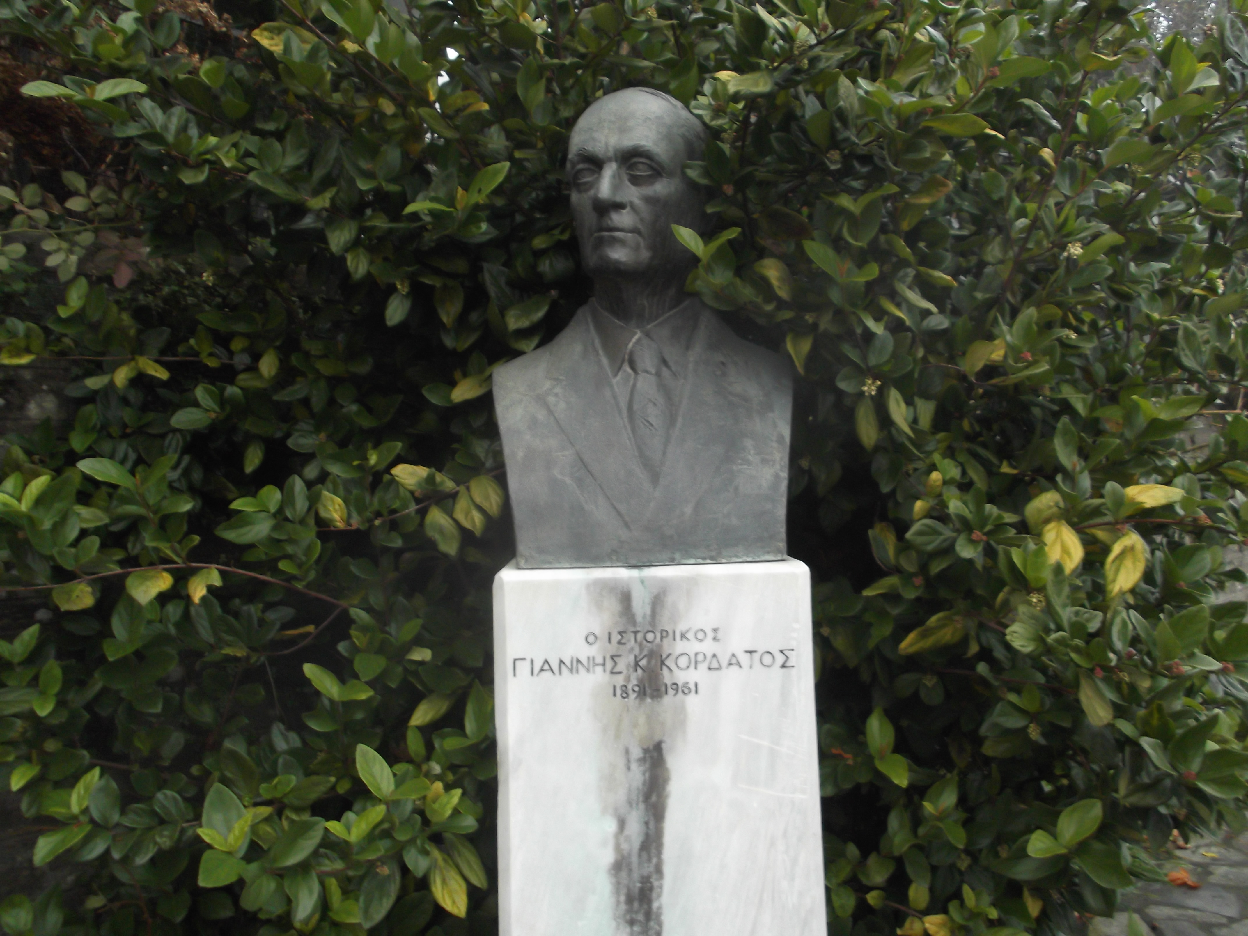 Bust ogf Greek politician, Gianis Kordatos in Zagora